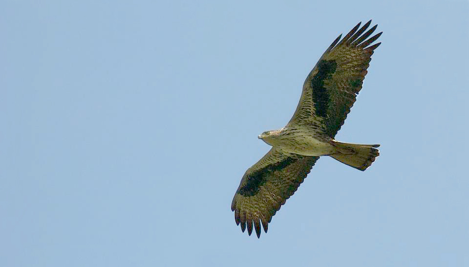 Bonelli's Eagle in flight